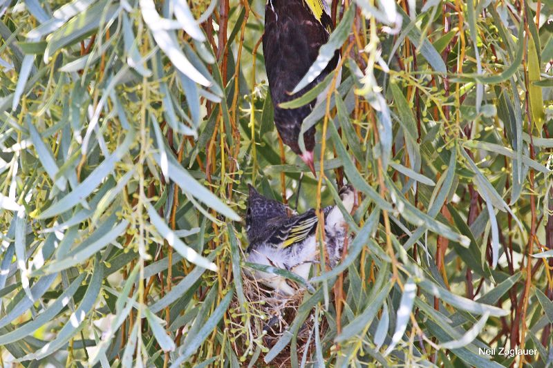 Painted honeyeater feeding